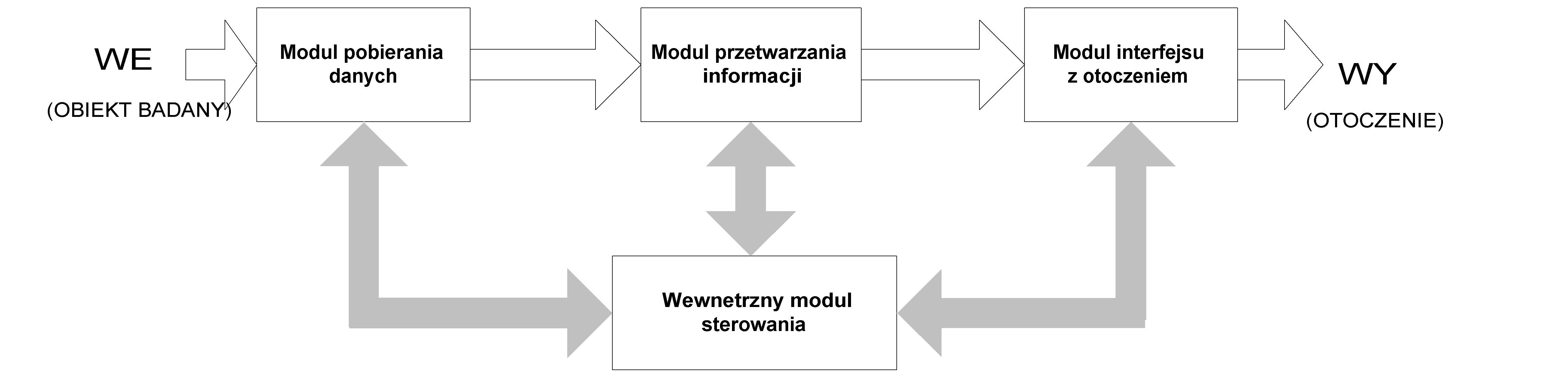 Structure measure-control system - spread control